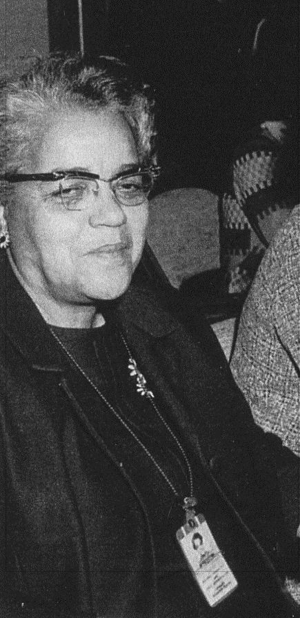 American mathematician Dorothy Vaughan, "human computer" working at NACA, later NASA.